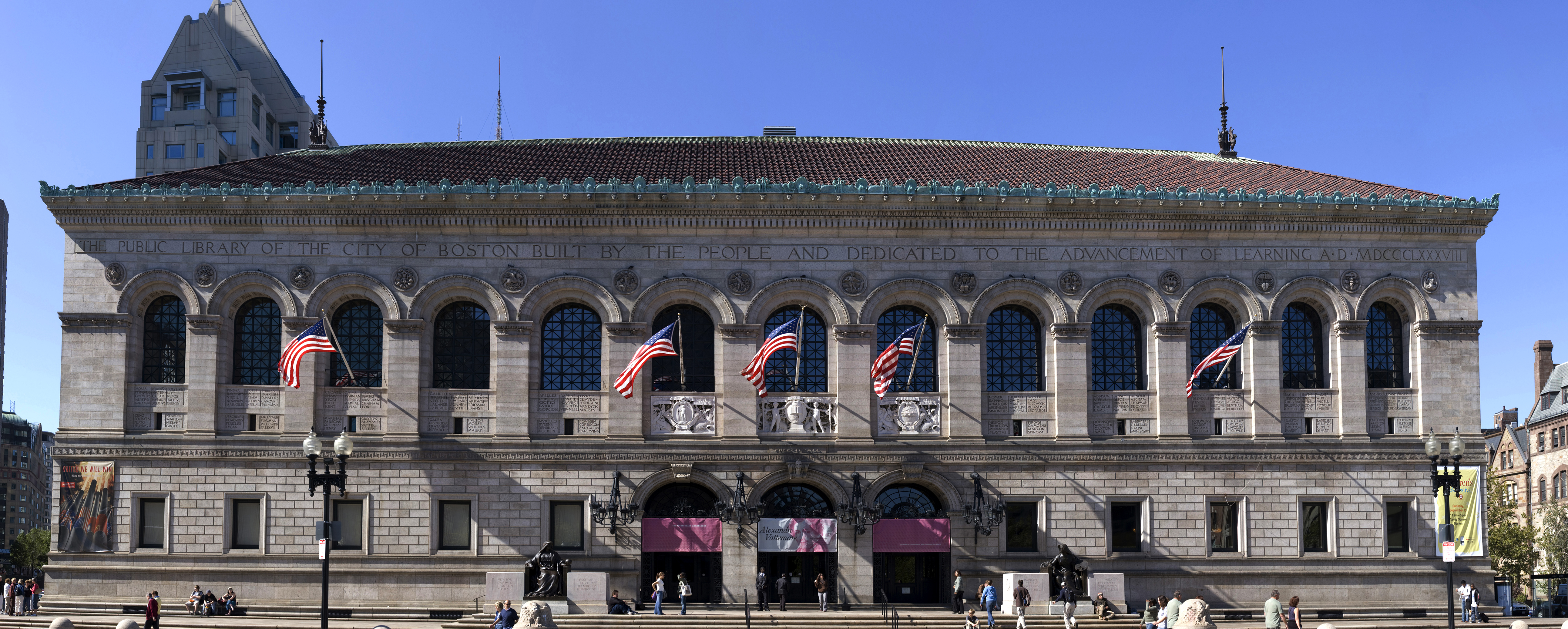 A stitched panorama of the Boston Public Library